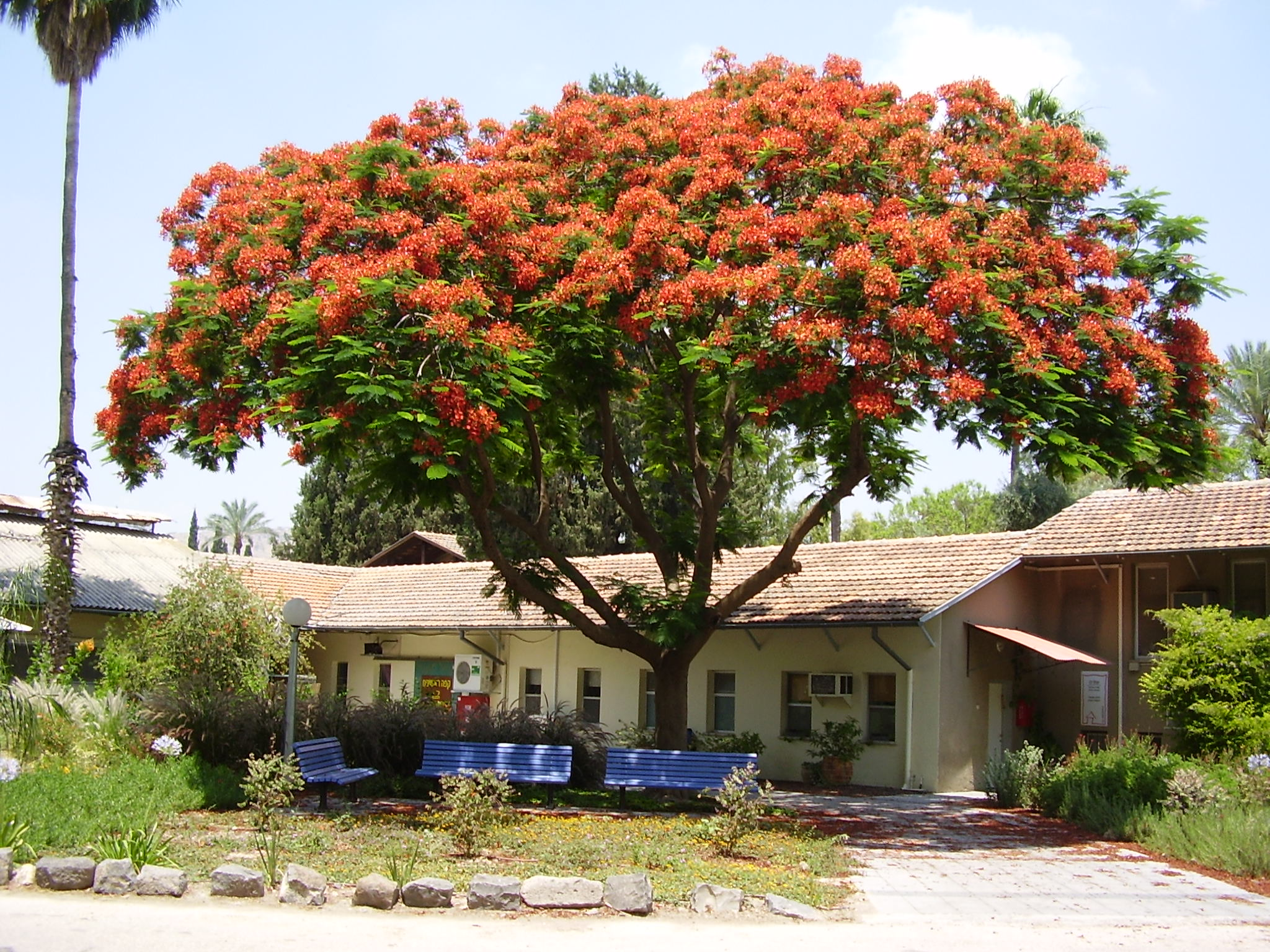 delonix regia